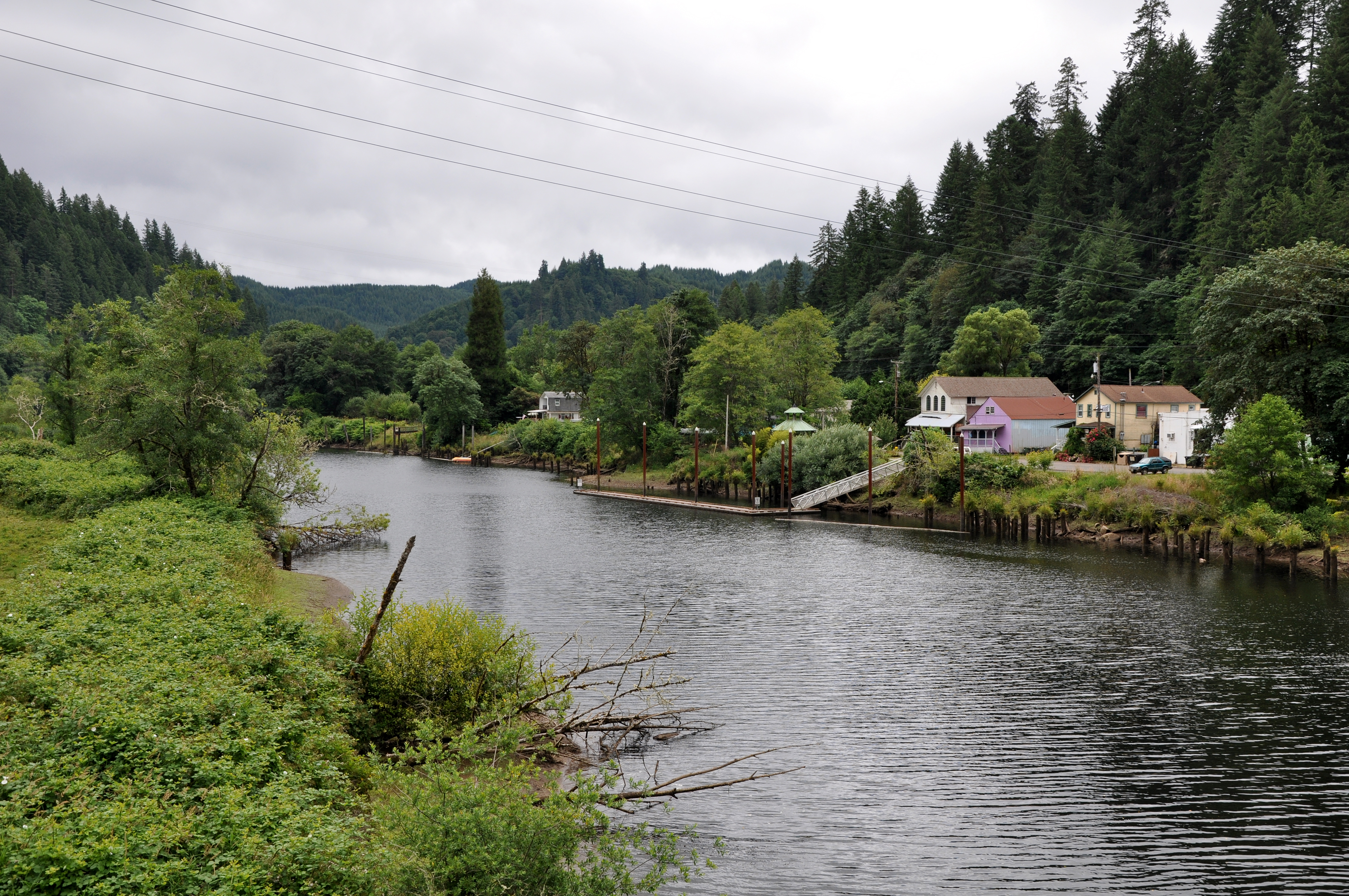 Siuslaw River at Mapleton in the U.S. state of Oregon. Looking downstream from the Oregon Route 126 bridge.